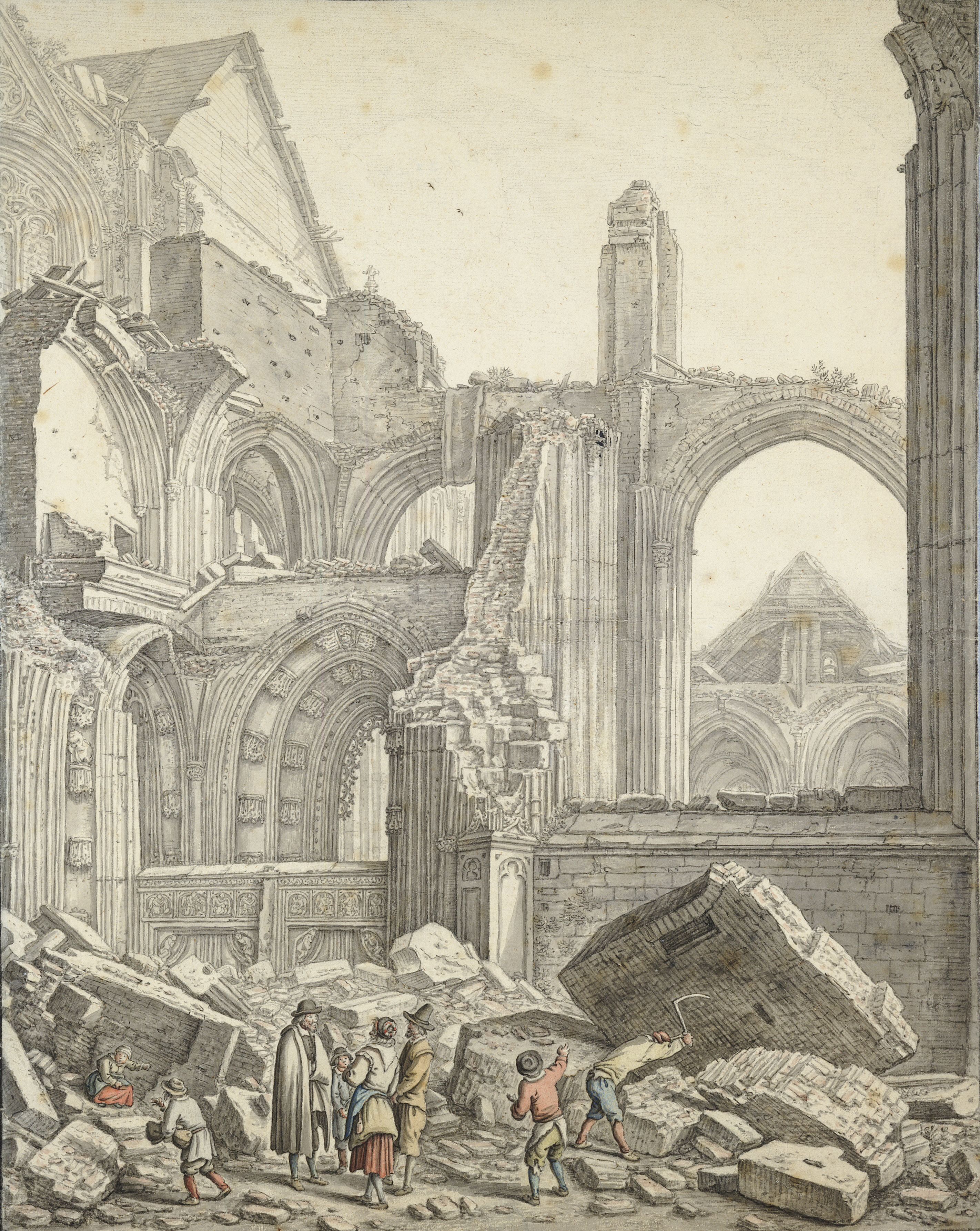 Dom in puin